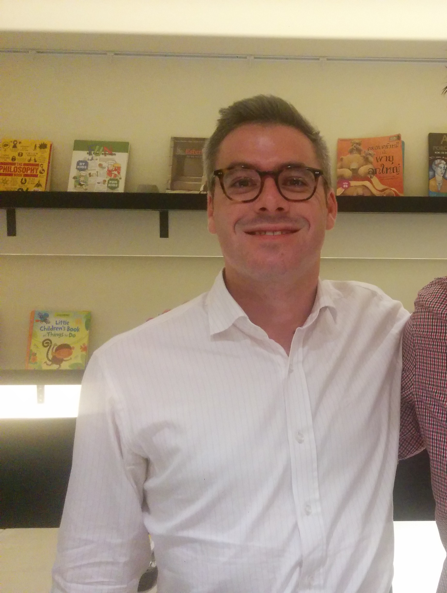 Parti Socialiste candidate for the 11th circumscription, French legislative elections of June 2017. In this picture he was meeting the French community in Japan, at the "Embassy of Tengenji" restaurant in Tokyo.